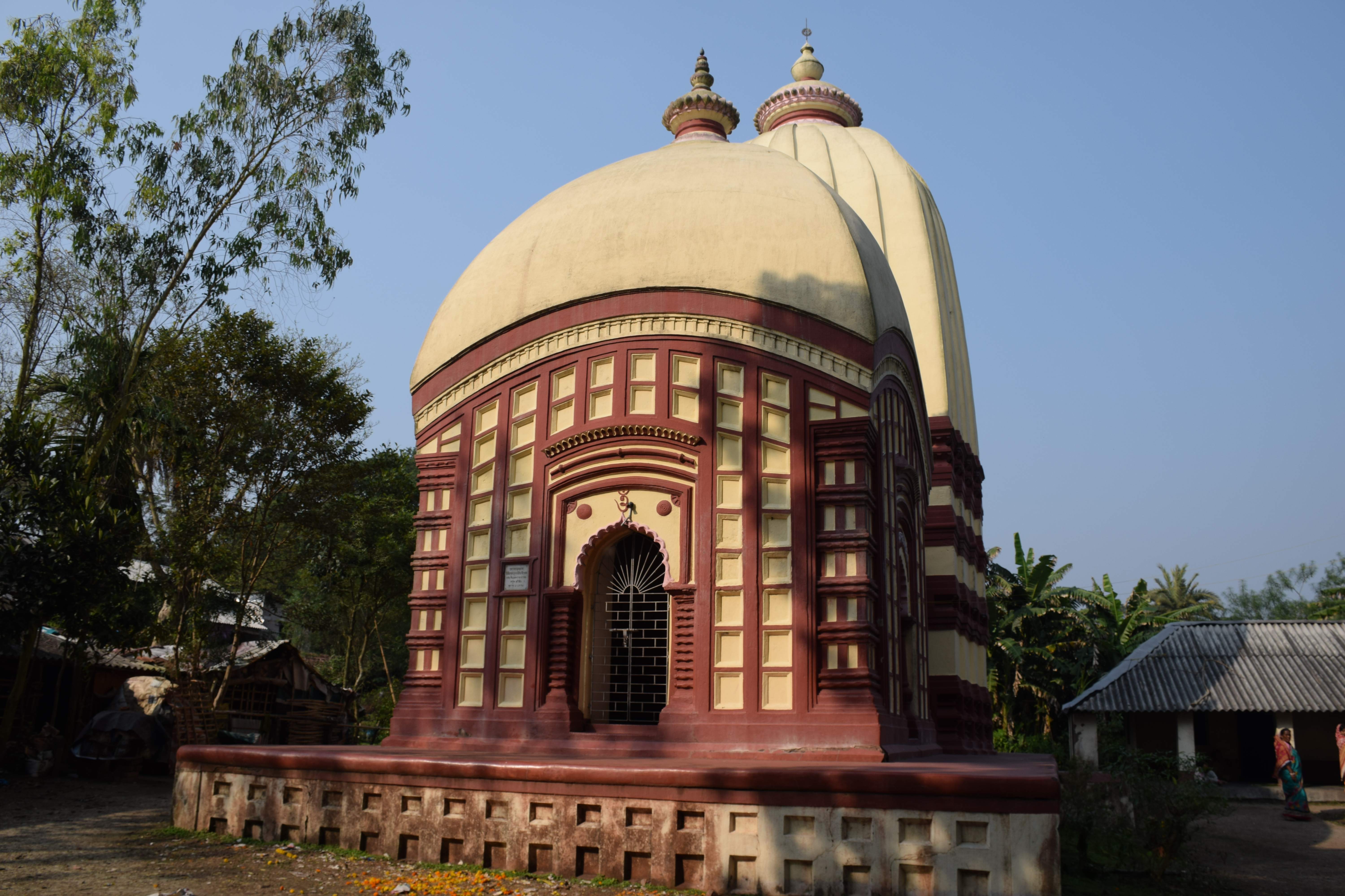 Shyama SundaraDeul at Paikbheri under Purba Medinipur district in West Bengal. This is a Saptaratha Deul with Charchala Jagamohan. A temple of same name but of flat roofed style with Panacharatna stands adjacent to it.